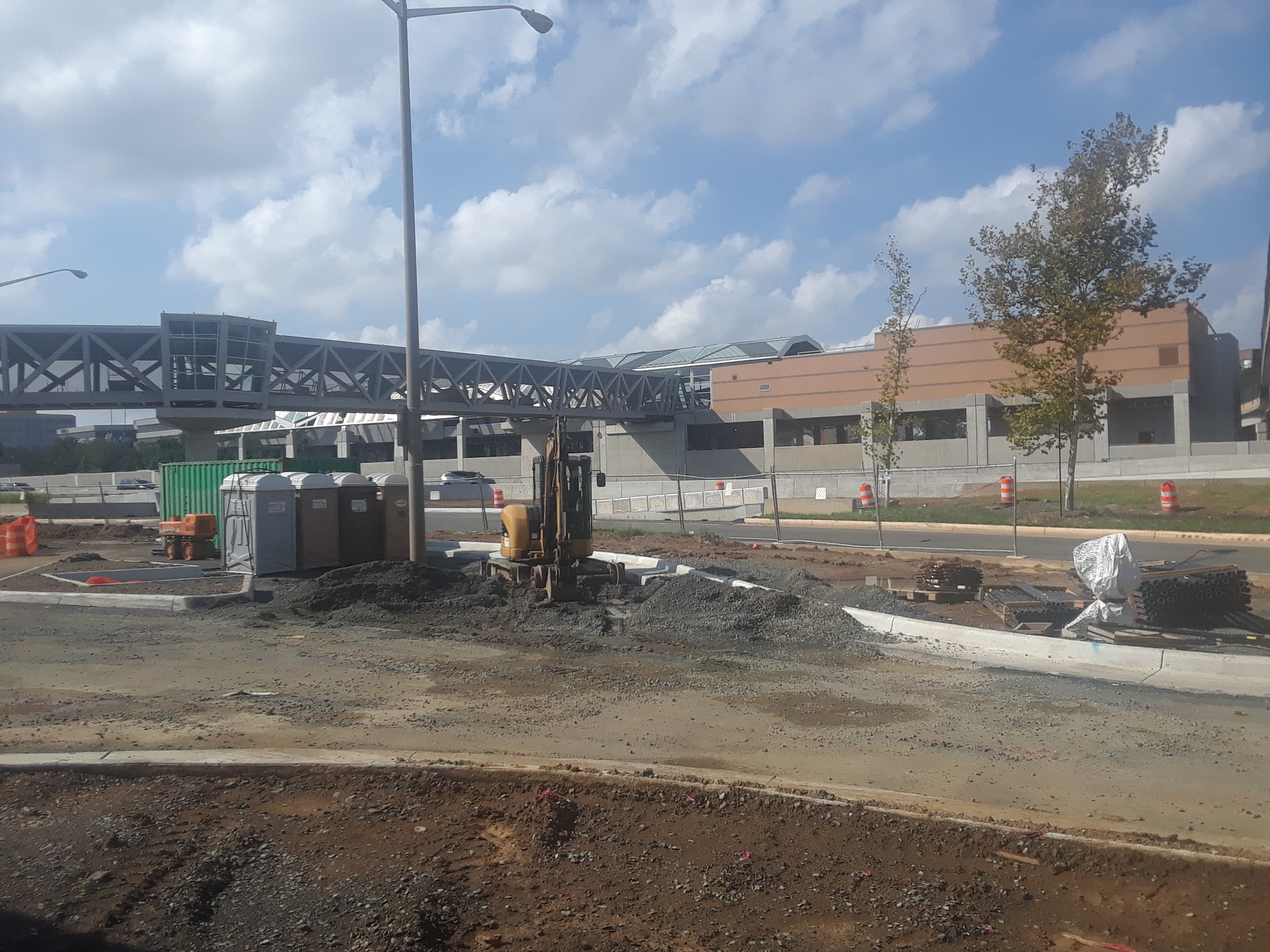 Picture of Herndon station under construction; 9/1/2018